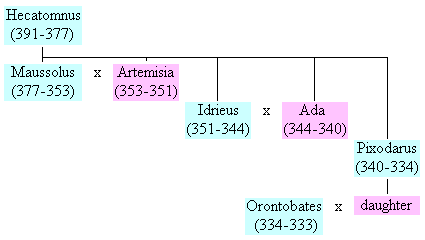 Family tree of the Hecatomnids